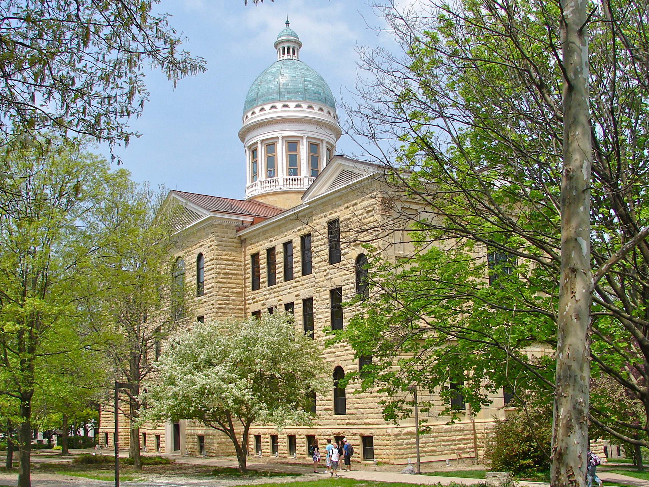 Old Main, Augustana College on the NRHP since September 11, 1975 7th Ave. between 35th and 38th Sts. (look up!), Rock Island, Illinois. Renaissance Revival building on the campus of Augustana College. It was built from 1884-1893.